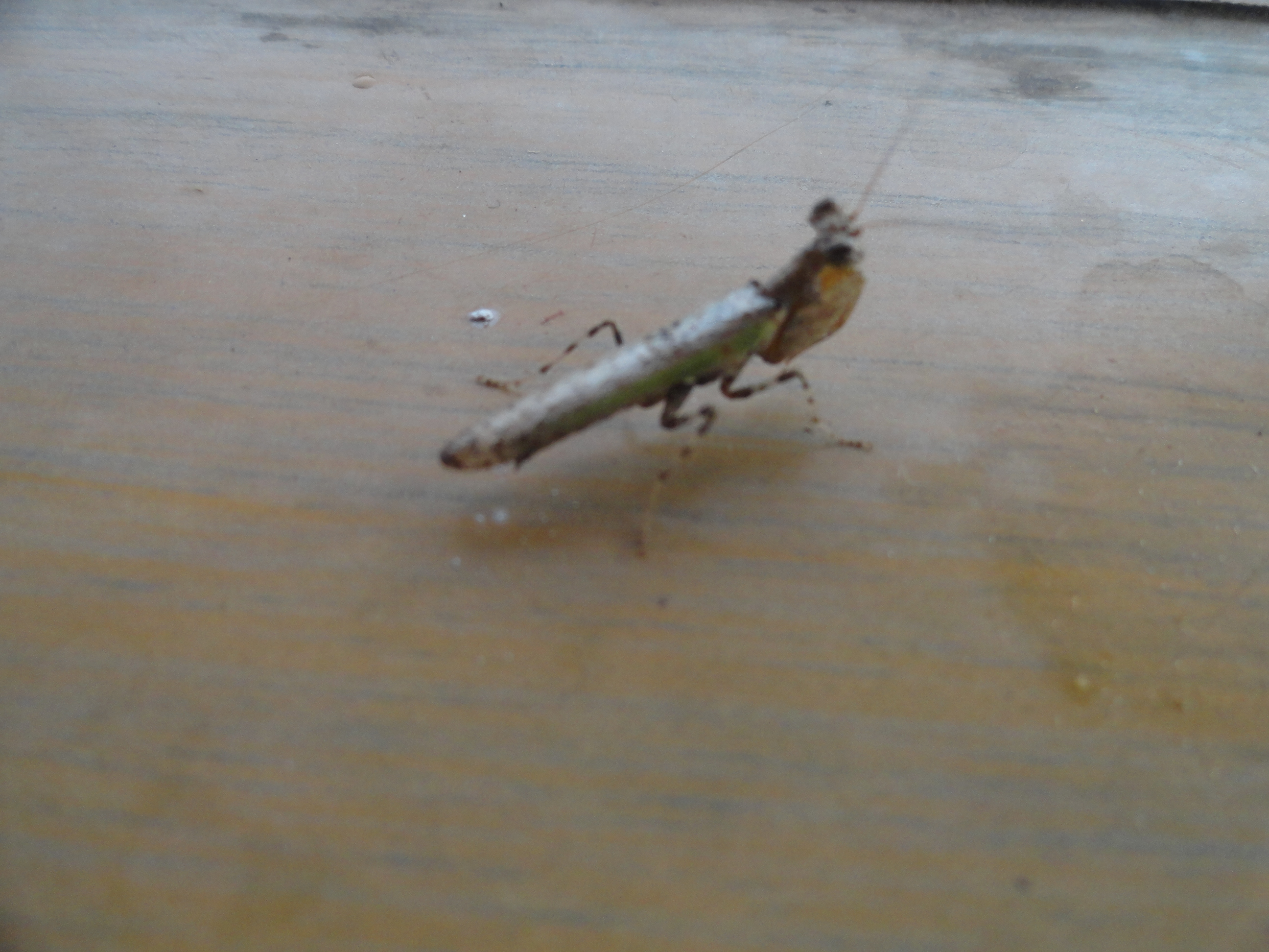 Golabama... photo in Venkatramapuram Village